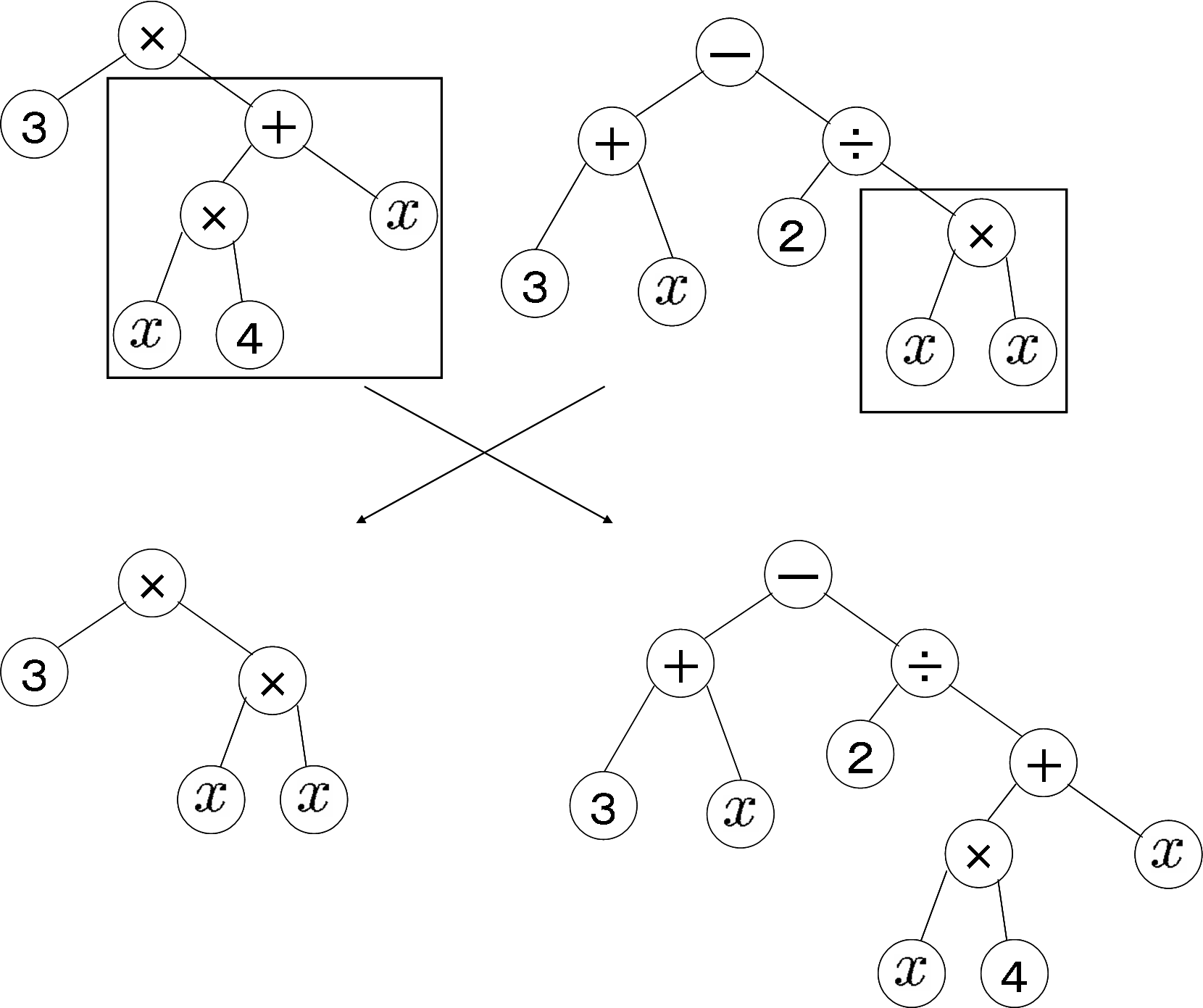 Crossover image for genetic programming.